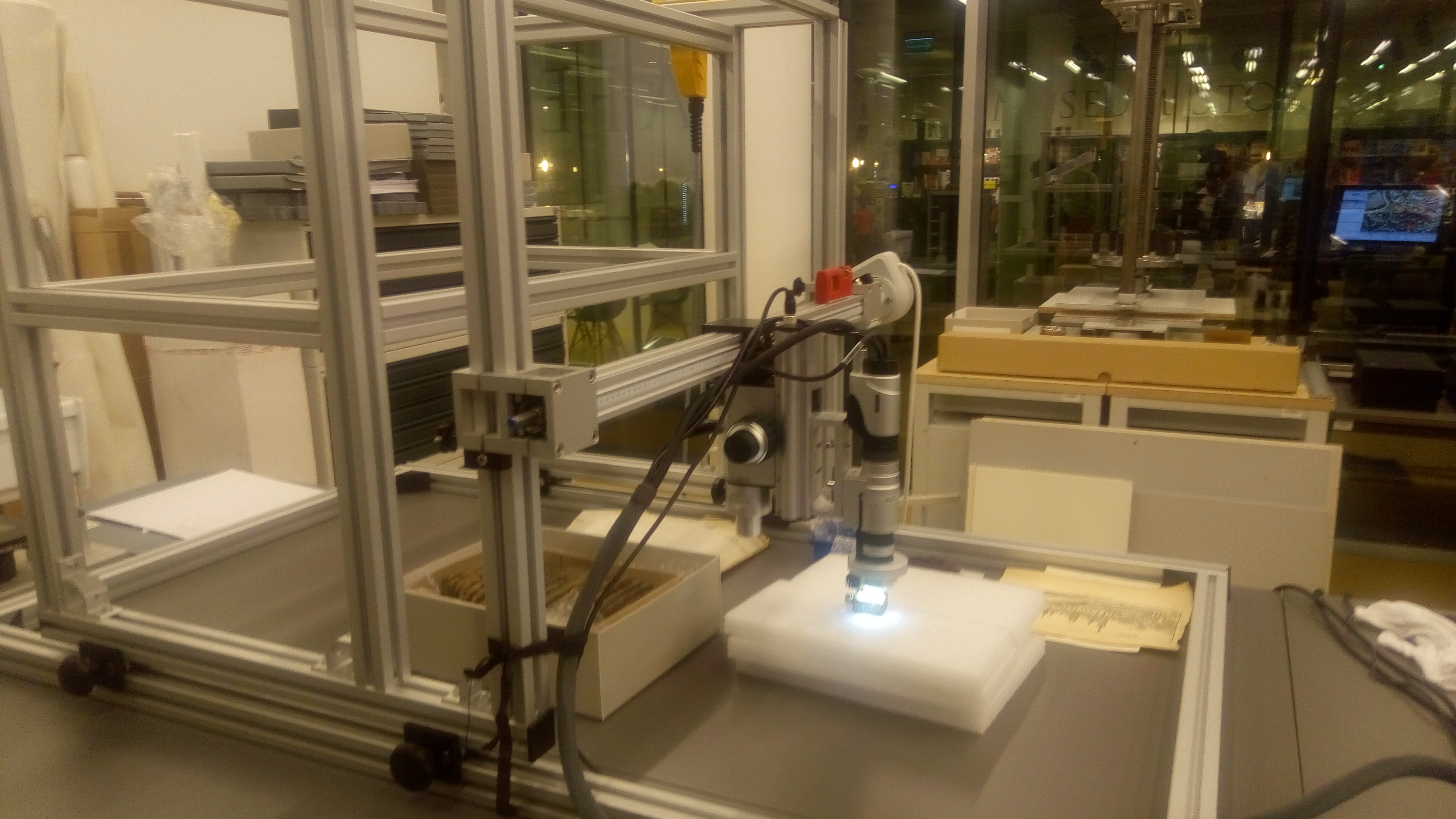 3D digital microscop Hirox RH-2000 in Silesian Museum in Katowice - Long Night of Museums